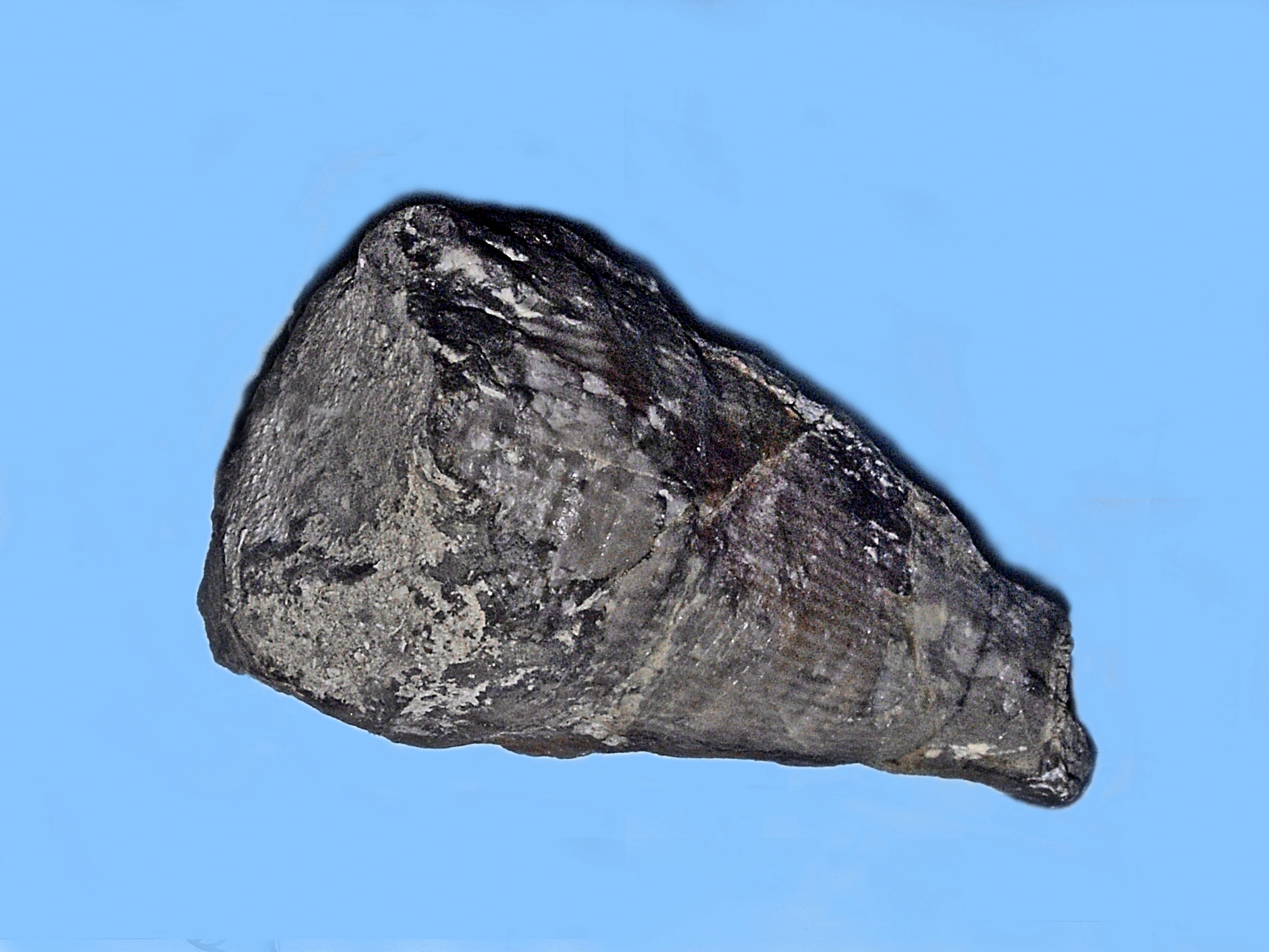 Pseudoamplexus from Lower Devonian of Coglians, on display at Museo Geologico G. Capellini, Bologna